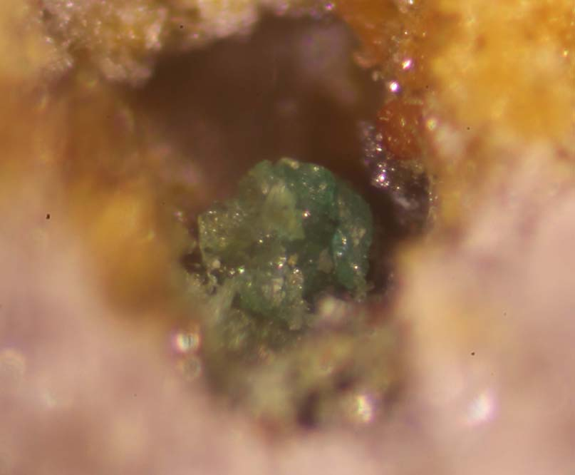 Green tripuhyite (a rare Sb-Fe oxide) associated to sharp colorless valentinite crystals from this classic Italian locality: Tafone Mine, Grosseto Province, Tuscany, Italy.